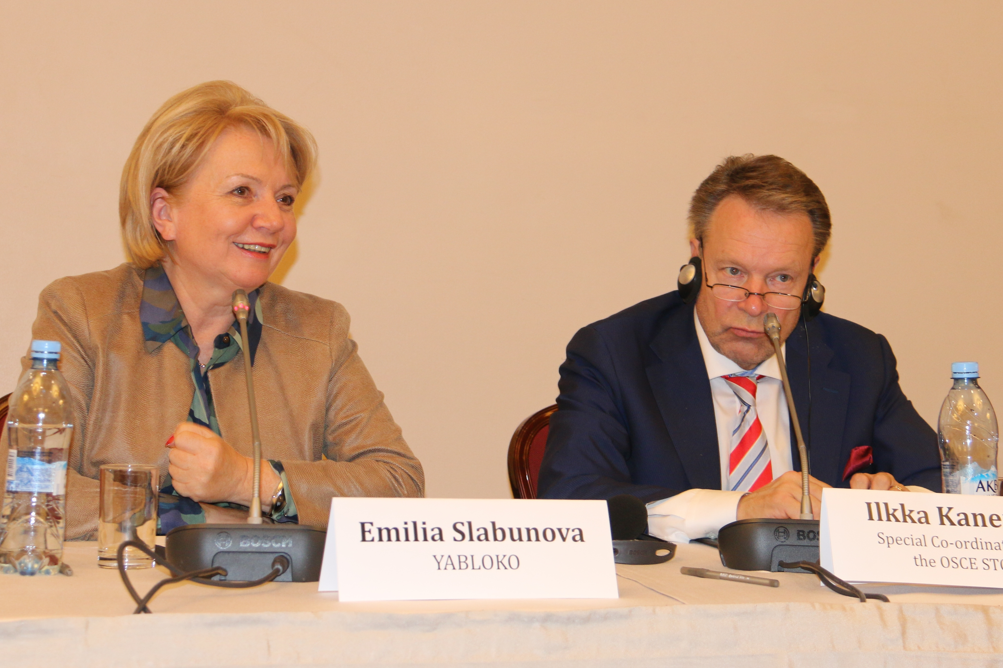 Chairperson of the Russian United Democratic Party "Yabloko" Emilia Slabunova and Special Co-ordinator Ilkka Kanerva (Finland), Moscow, 16 September 2016